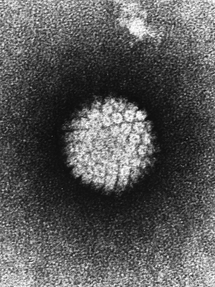 Pathology: EM: Papilloma Virus (HPV) Electron micrograph of a negatively stained human papilloma virus (HBV) which occurs in human warts. Warts on the hands and feet have never been known to progress to cancer. However, after many years cervical warts can become cancerous.